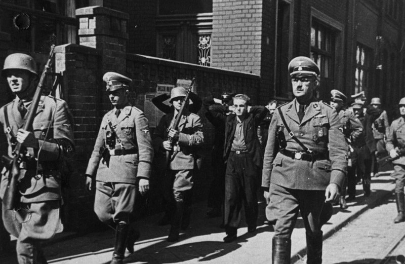 Polish civilians from Bydgoszcz arrested by German troops. First days of September 1939.